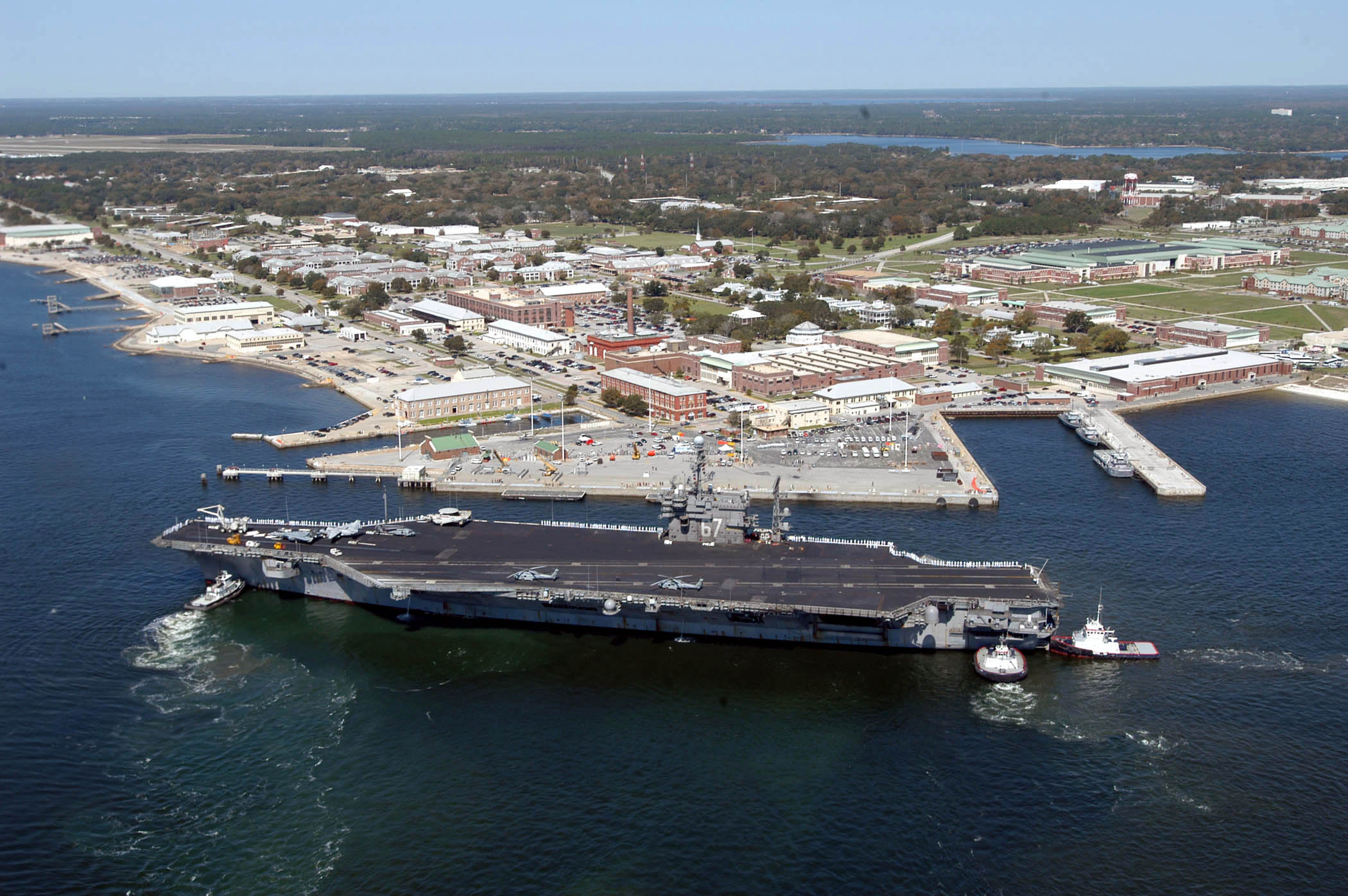 Pensacola, Fla. (Mar. 17, 2004 – USS John F. Kennedy (CV 67) arrives at Naval Air Station Pensacola, Fla., for a four-day port visit after completing a Composite Training Unit Exercise (COMTUEX) in the Gulf of Mexico. COMPTUEX is an intermediate level exercise designed to forge the strike group into a cohesive fighting team and is a critical step in pre-deployment training. During COMPTUEX, more than a dozen ships, and Carrier Air Wing Seventeen (CVW-17) embarked on Kennedy, conducted war game exercises using training ranges along the East Coast of the U.S. and the Gulf of Mexico. The exercise took advantage of existing ranges under the Navy’s comprehensive Training Resource Strategy (TRS). These ranges offer training facilities and realistic simulations, better preparing U.S. Navy ships and Sailors to participate in the Global War on Terrorism. U.S. Navy photo by Patrick Nichols. (RELEASED)